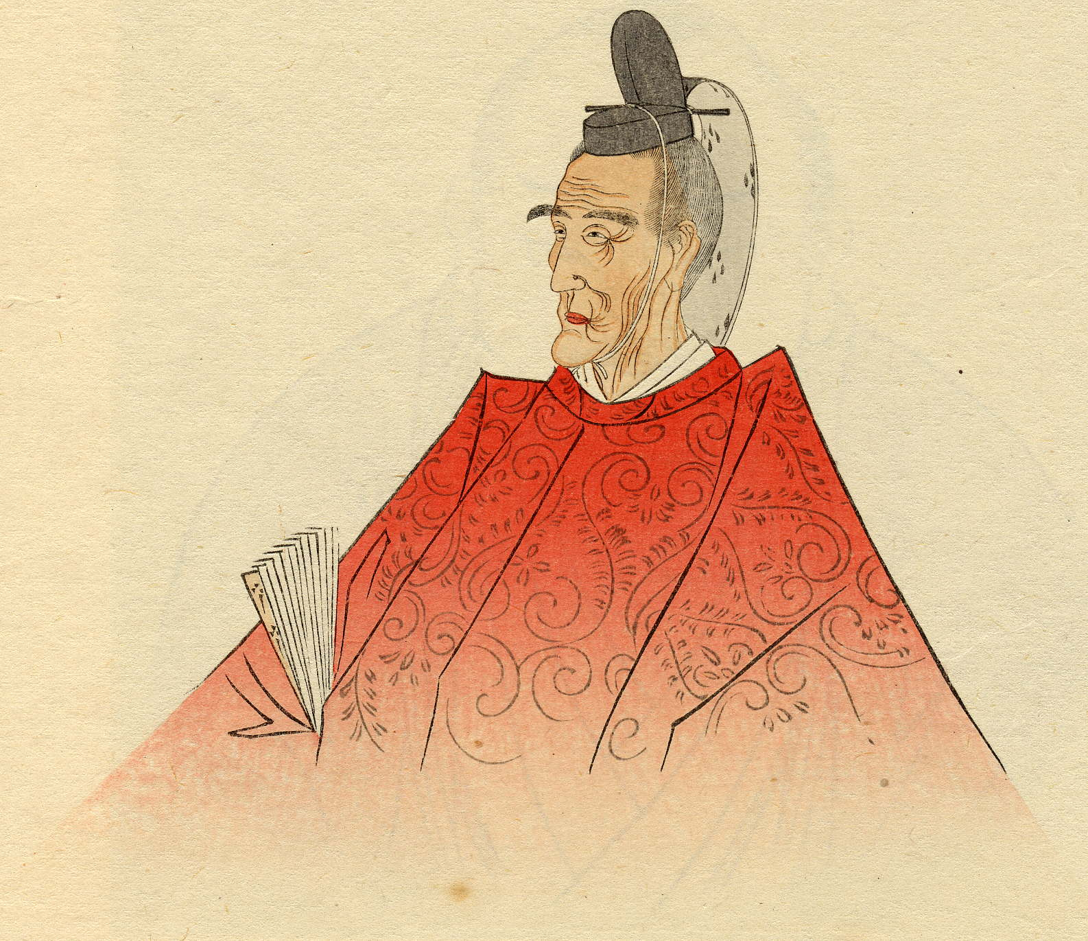 Kagawa Kageki(香川景樹) was a japanese Poet in Edo period.